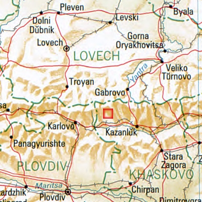 location of chizha Sokolna in Bulgaria